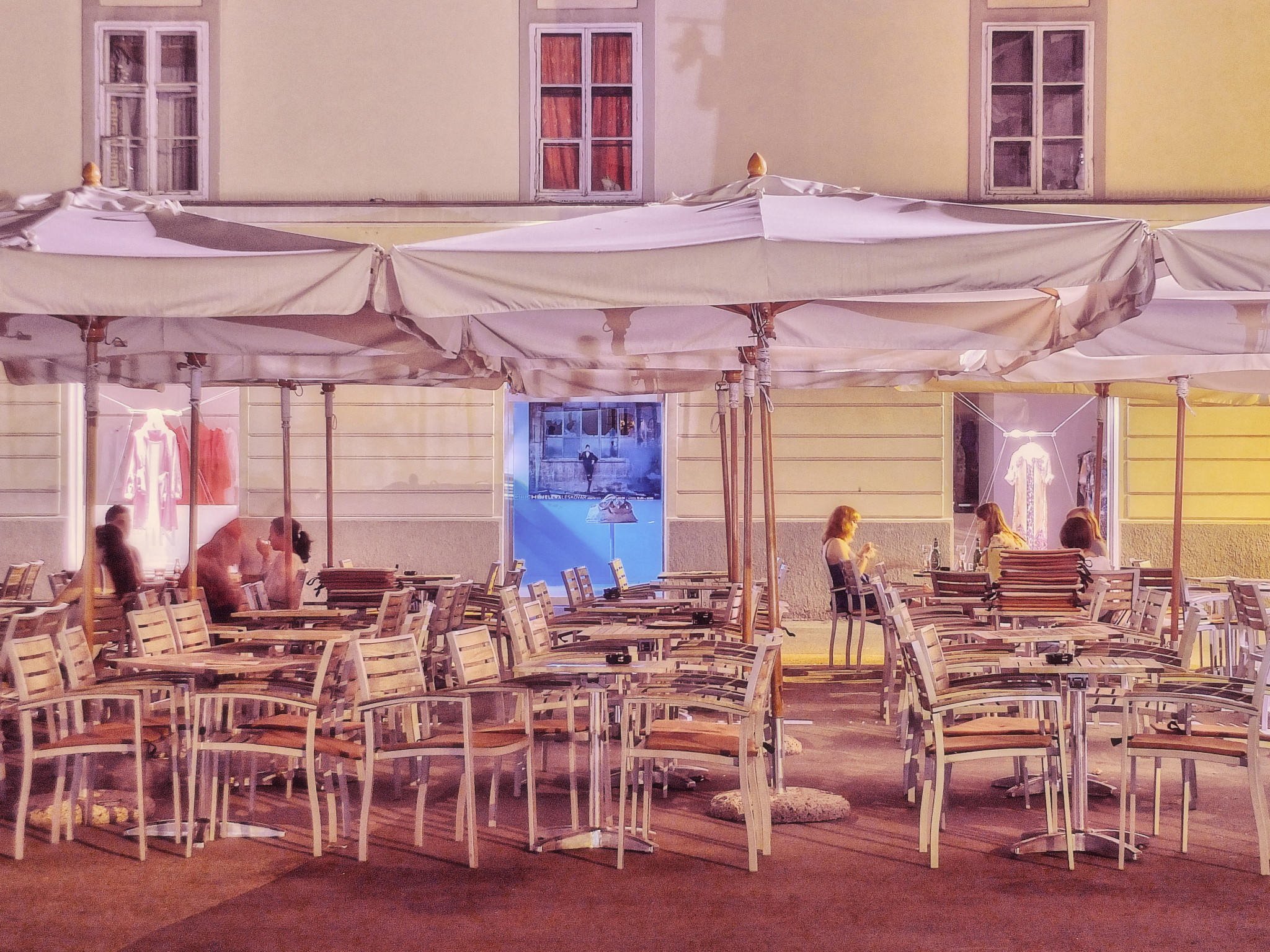 Umbrellas for sun and rain, open at night, at the restaurant at the Ljubljanica river in slovene capital...